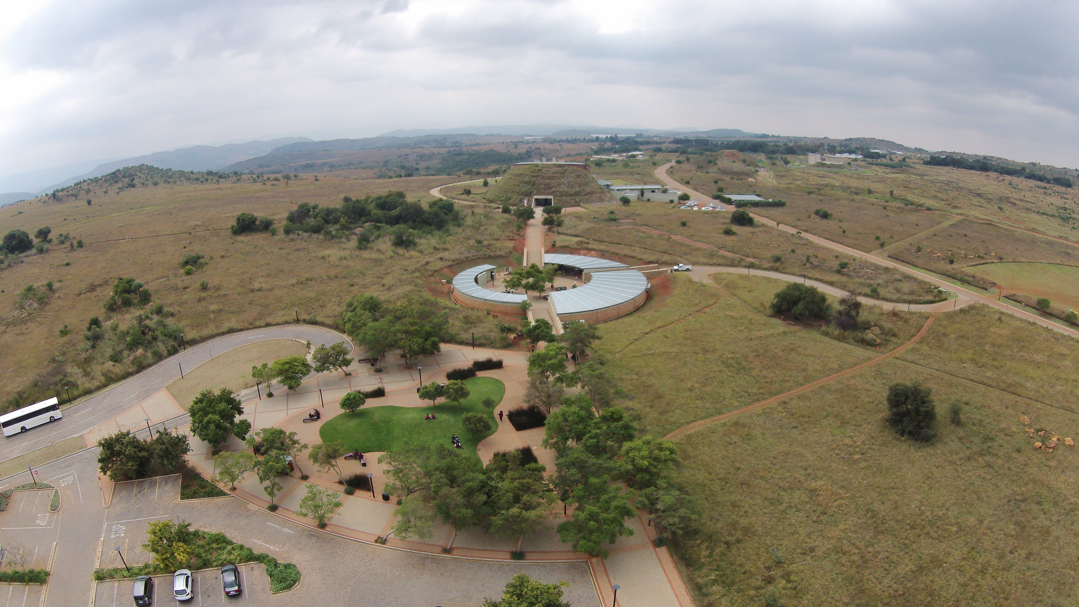 Maropeng visitor centre at the Cradle of Humankind, Gauteng, South Africa.Maropeng is Setswana for "former home" / "place where we lived".